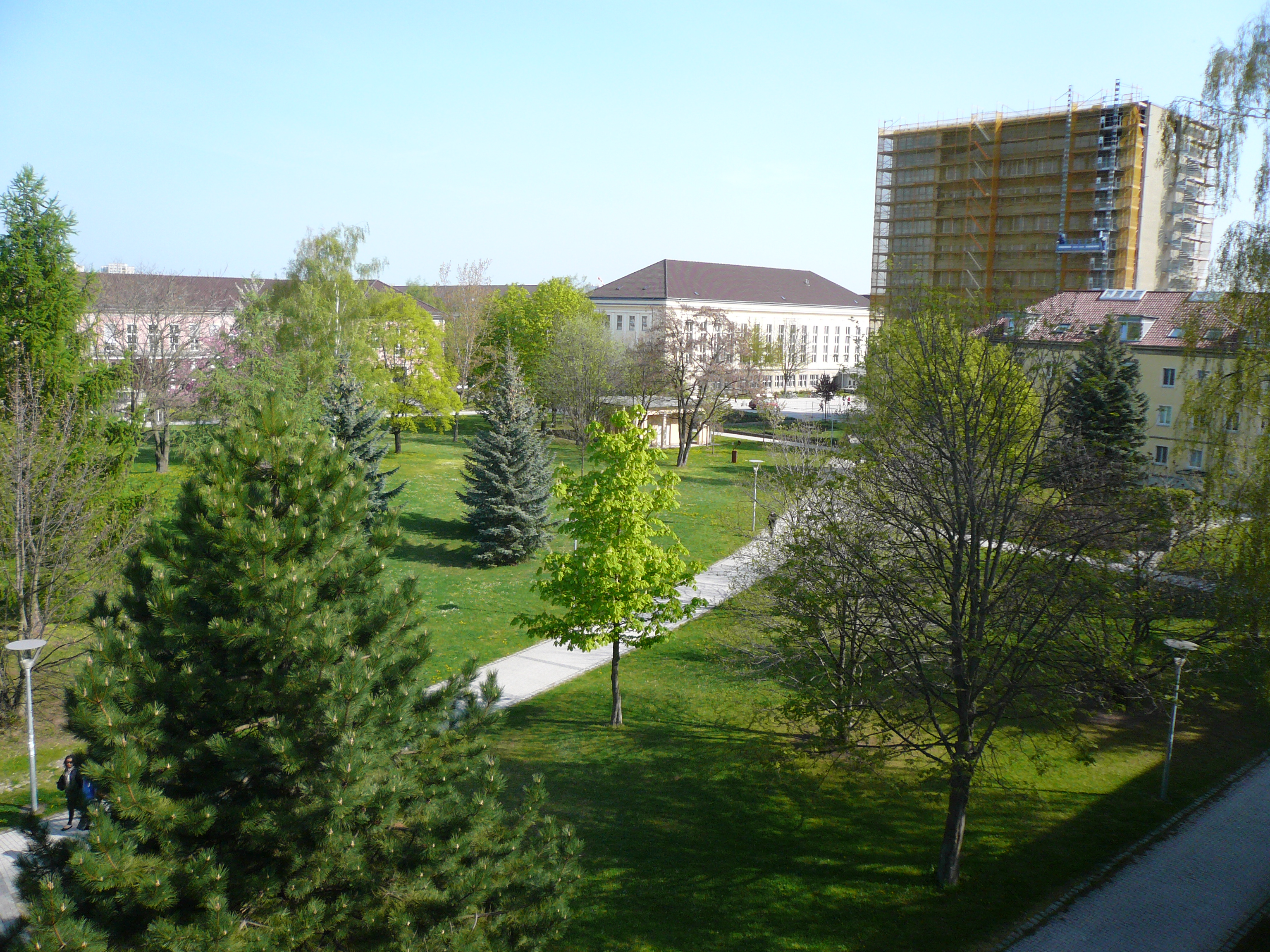 The campus of the University of Erfurt, Germany